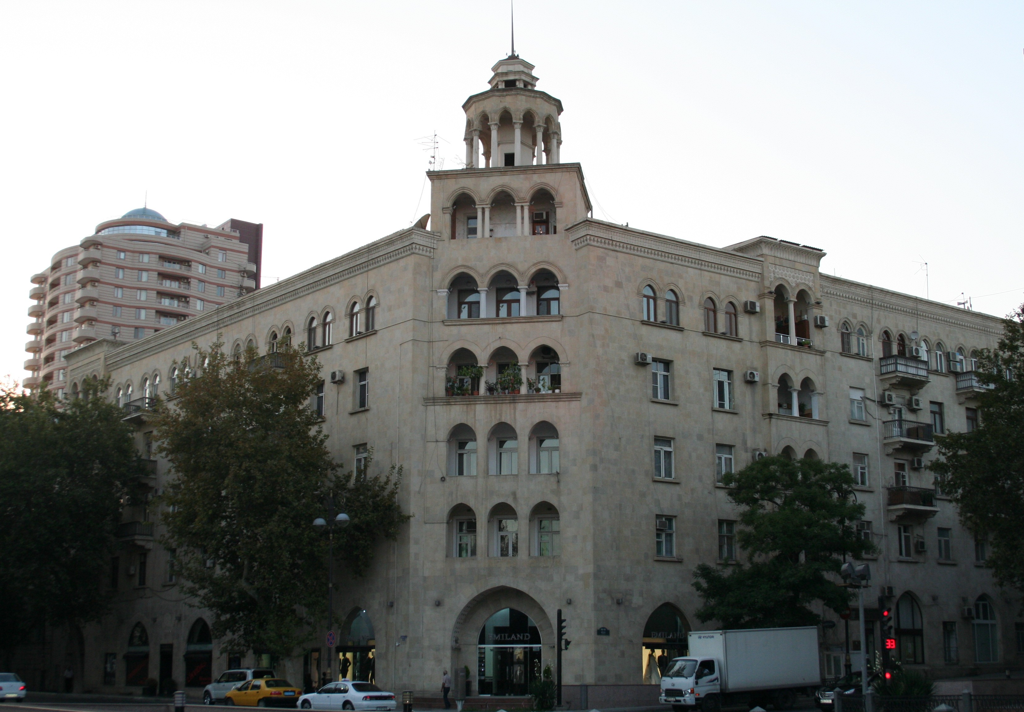 Building on Fizuli Street 63. Built by German prisoners of war of World War II.